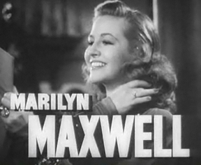 Cropped screenshot of Marilyn Maxwell from the trailer for the film Stand by for Action.